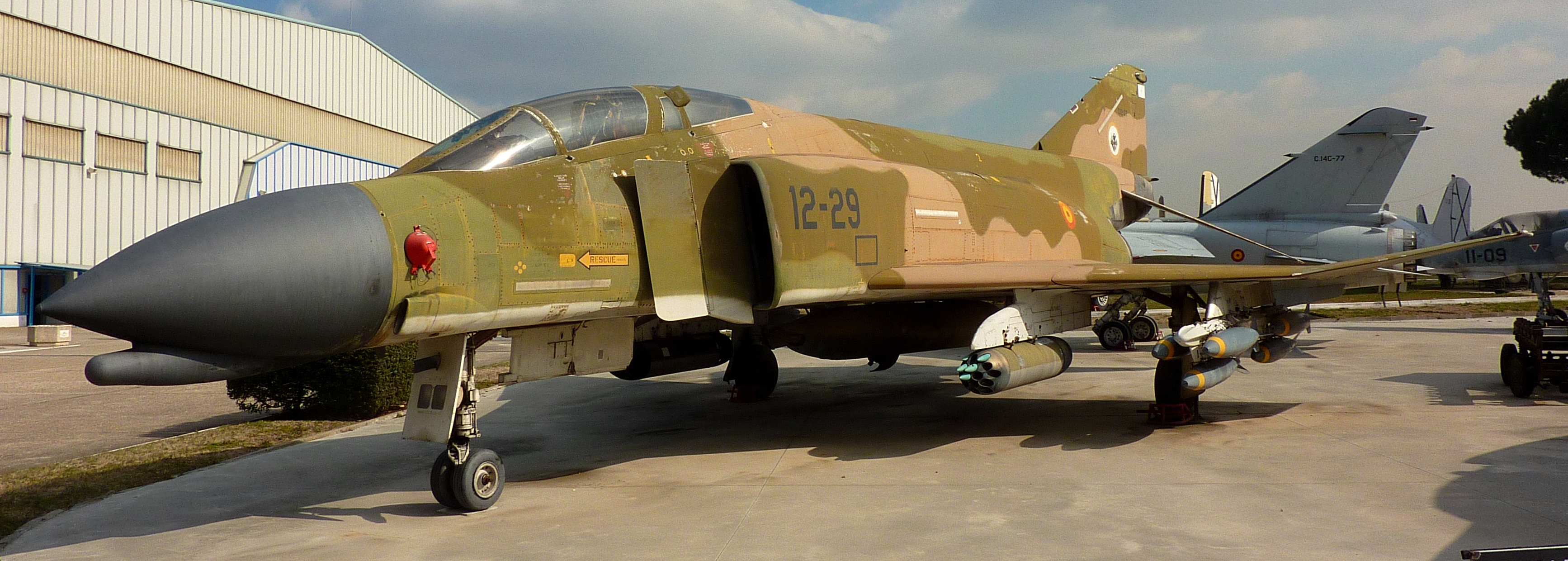 Spanish Air Force F-4C at the Cuatro Vientos Air Museum (Madrid).